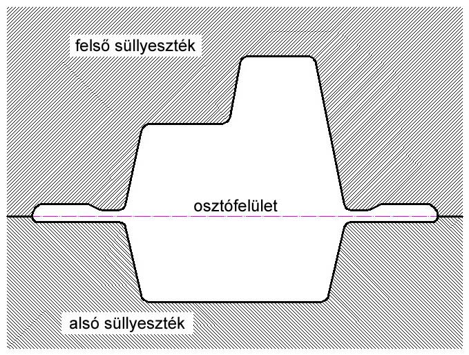 Die block